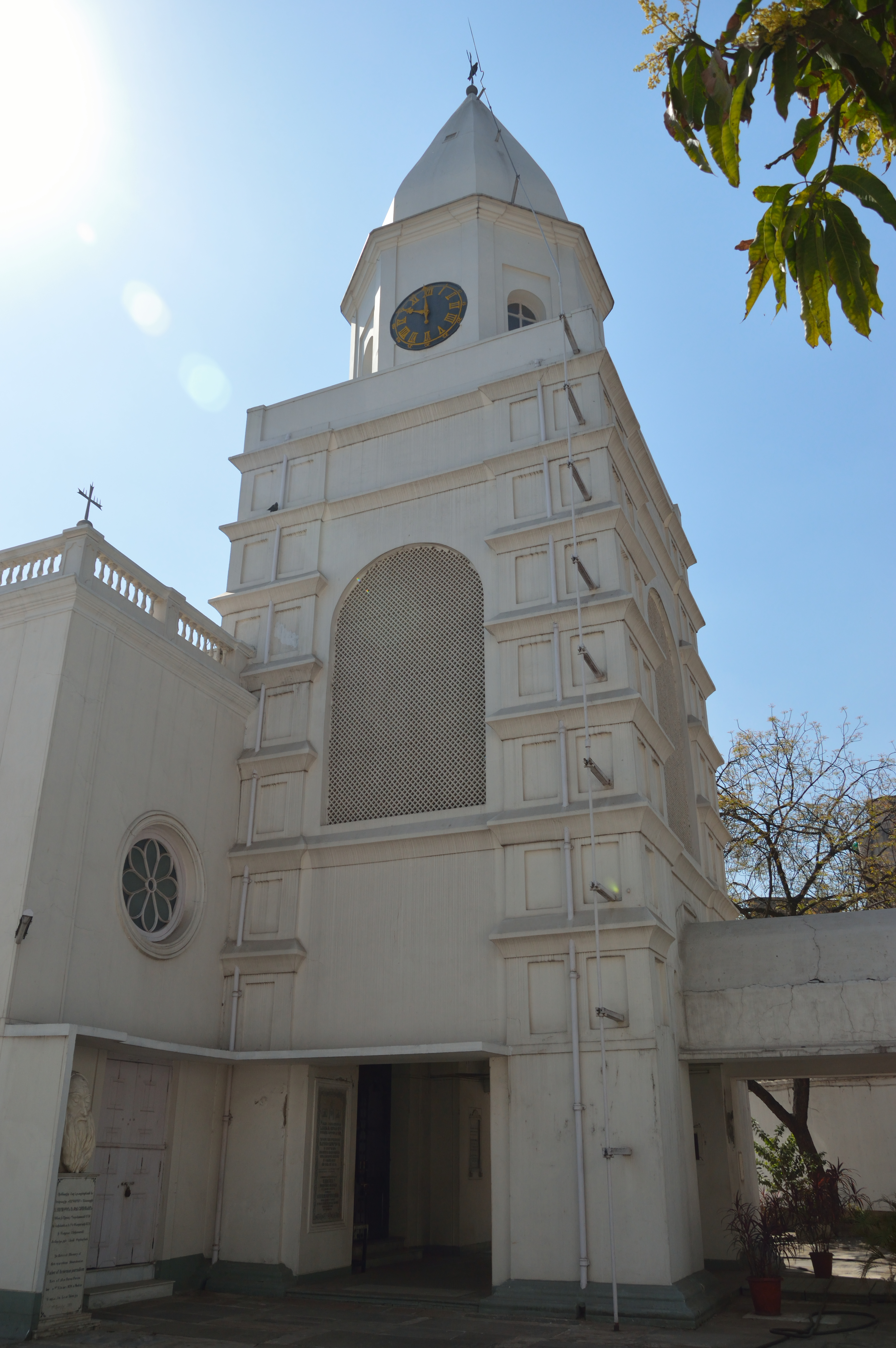 This photograph has been taken during the 'Wikipedia/Wikimedia Photowalk' event for the 'Wikipedia Takes Kolkata II' campaign on 3 March 2013, in Kolkata.